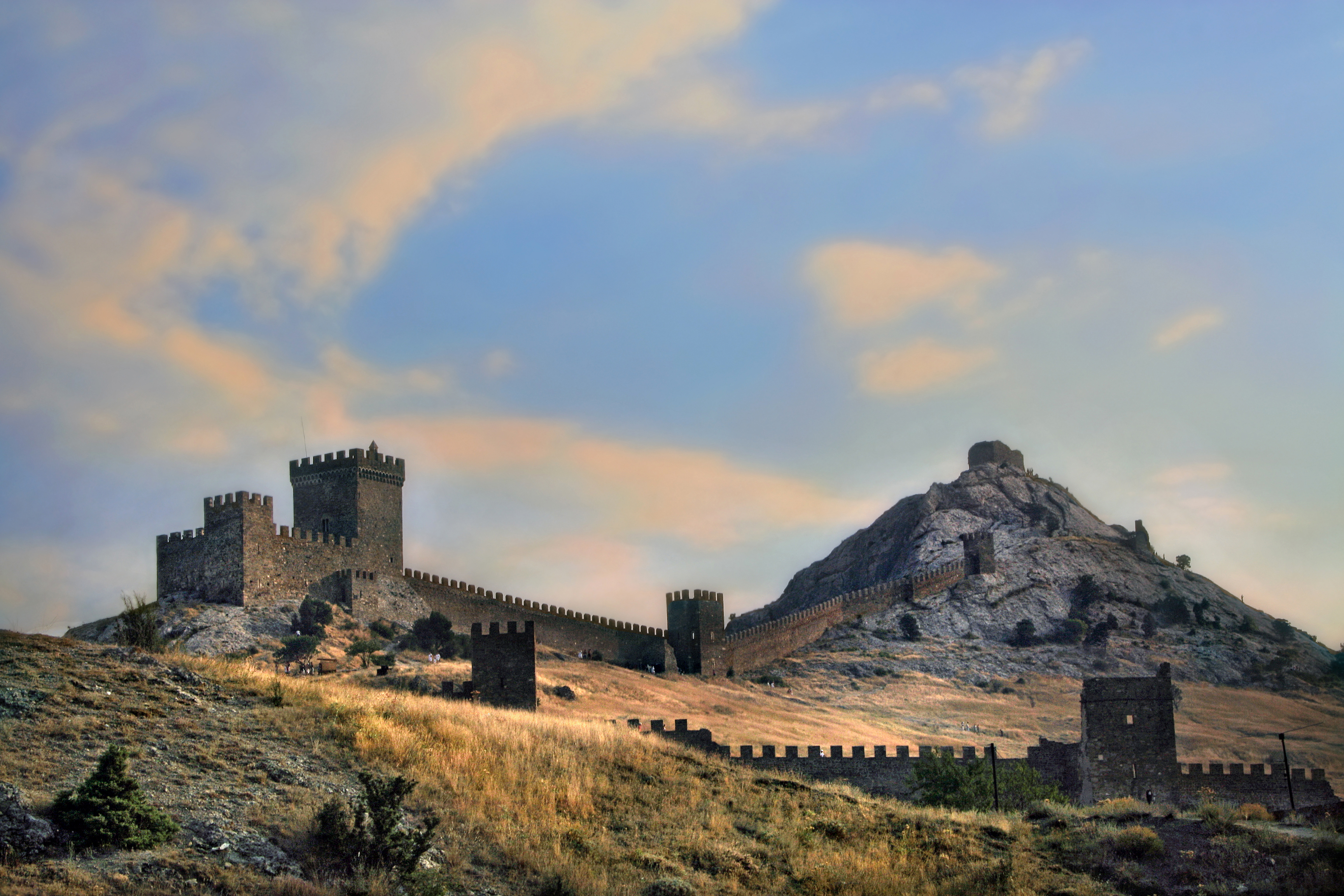 Genoese fortress in Sudak. Crimea, Russia